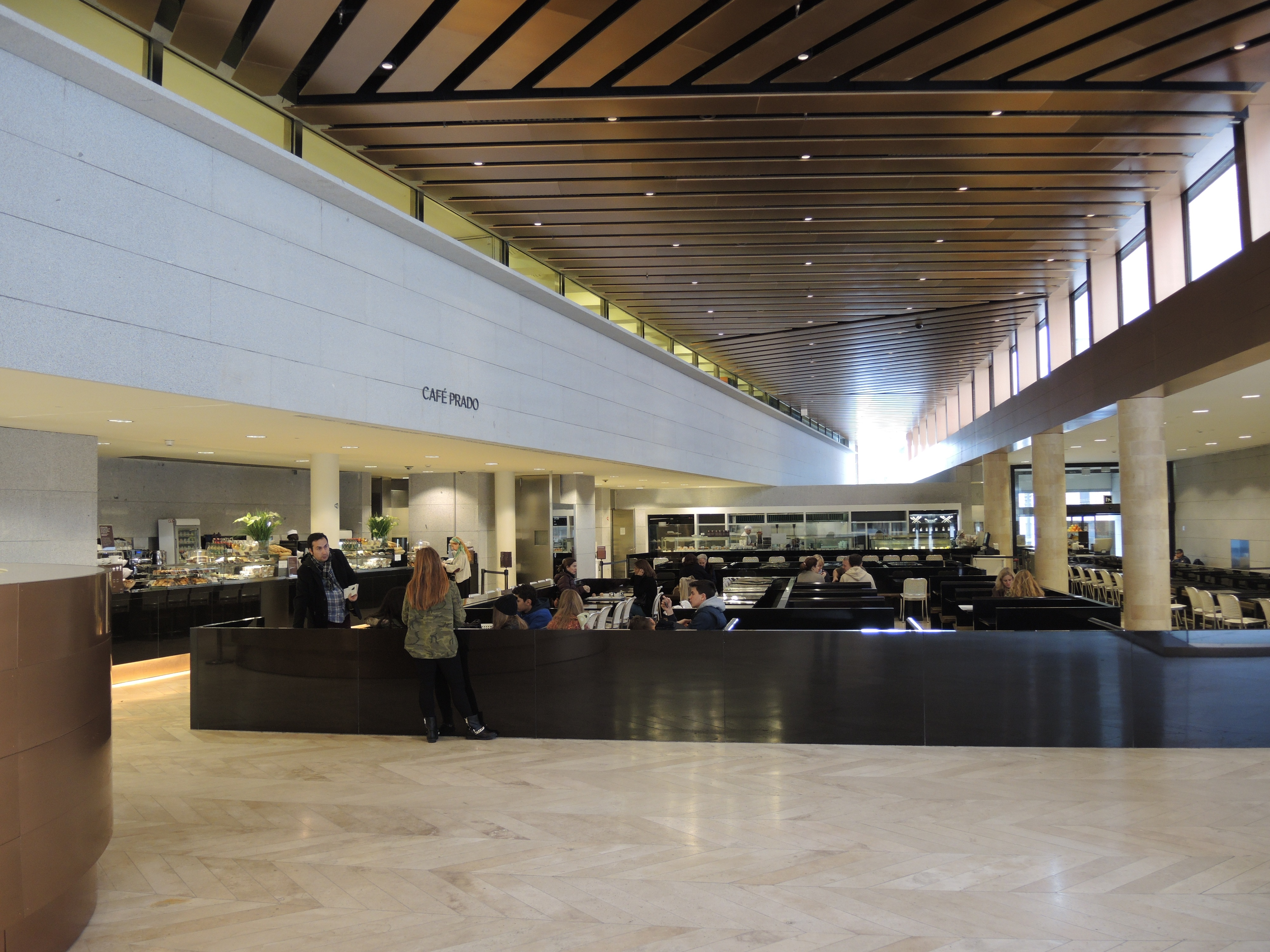 Interior of new addition to Prado Museum Madrid